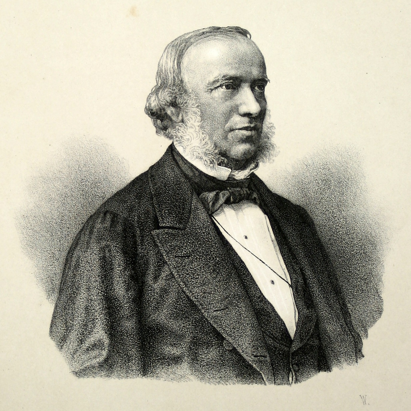 Portrait of Otto Carlsund from the book "Svenska industriens män" (1875)